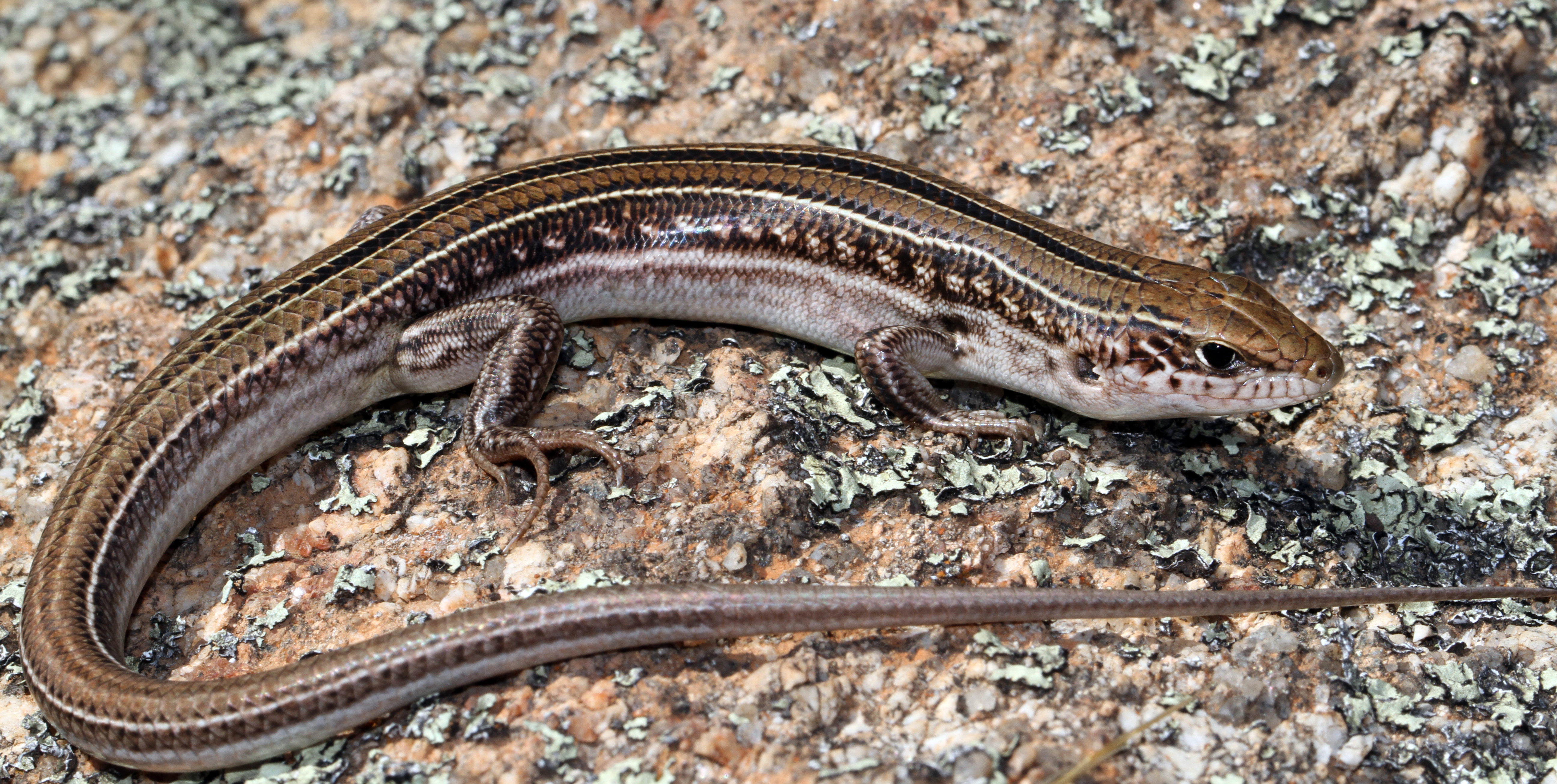 North Central Vic.